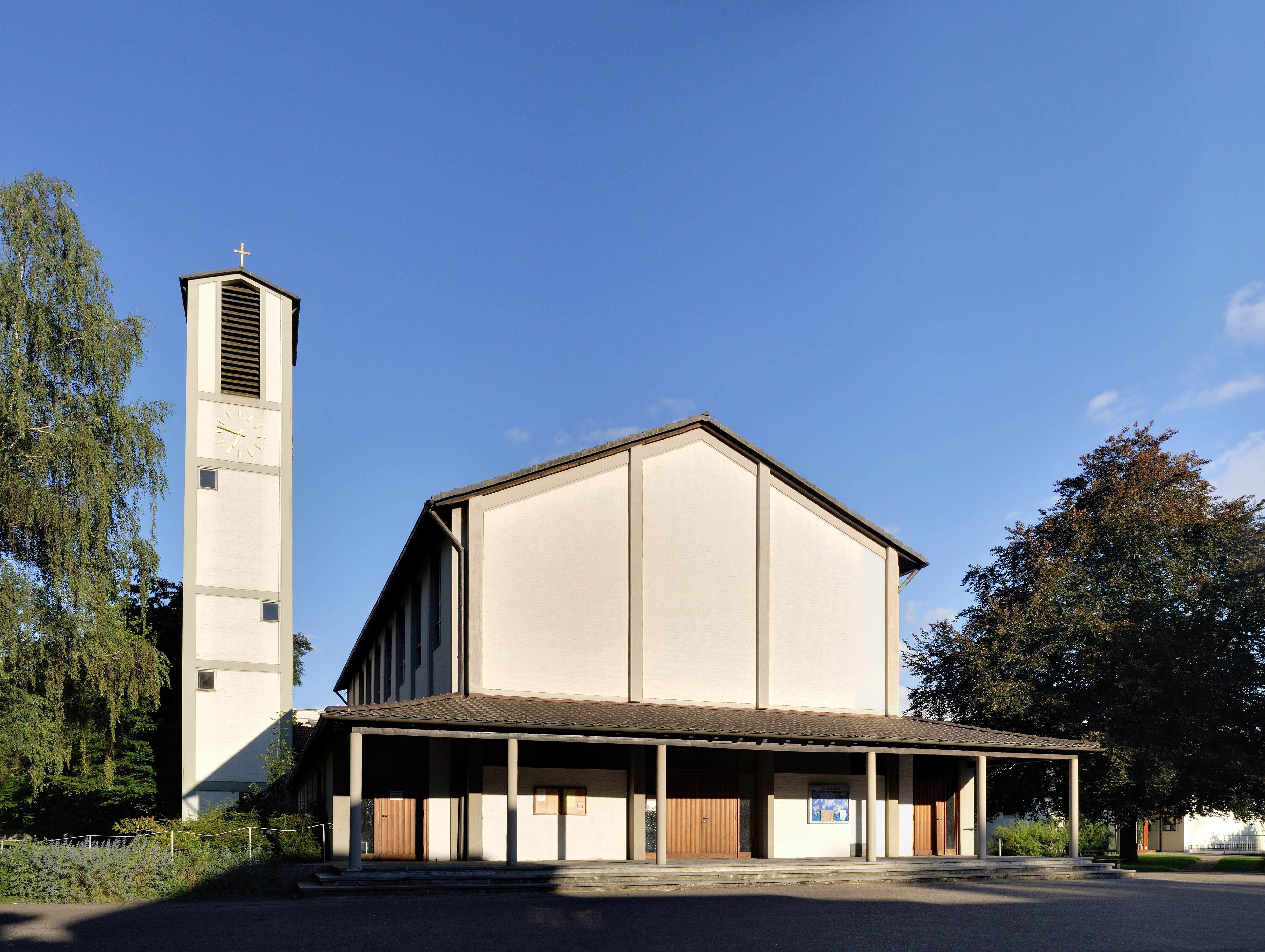 The Christ Church in Lörrach, Bade-Wurttemberg, Germany.